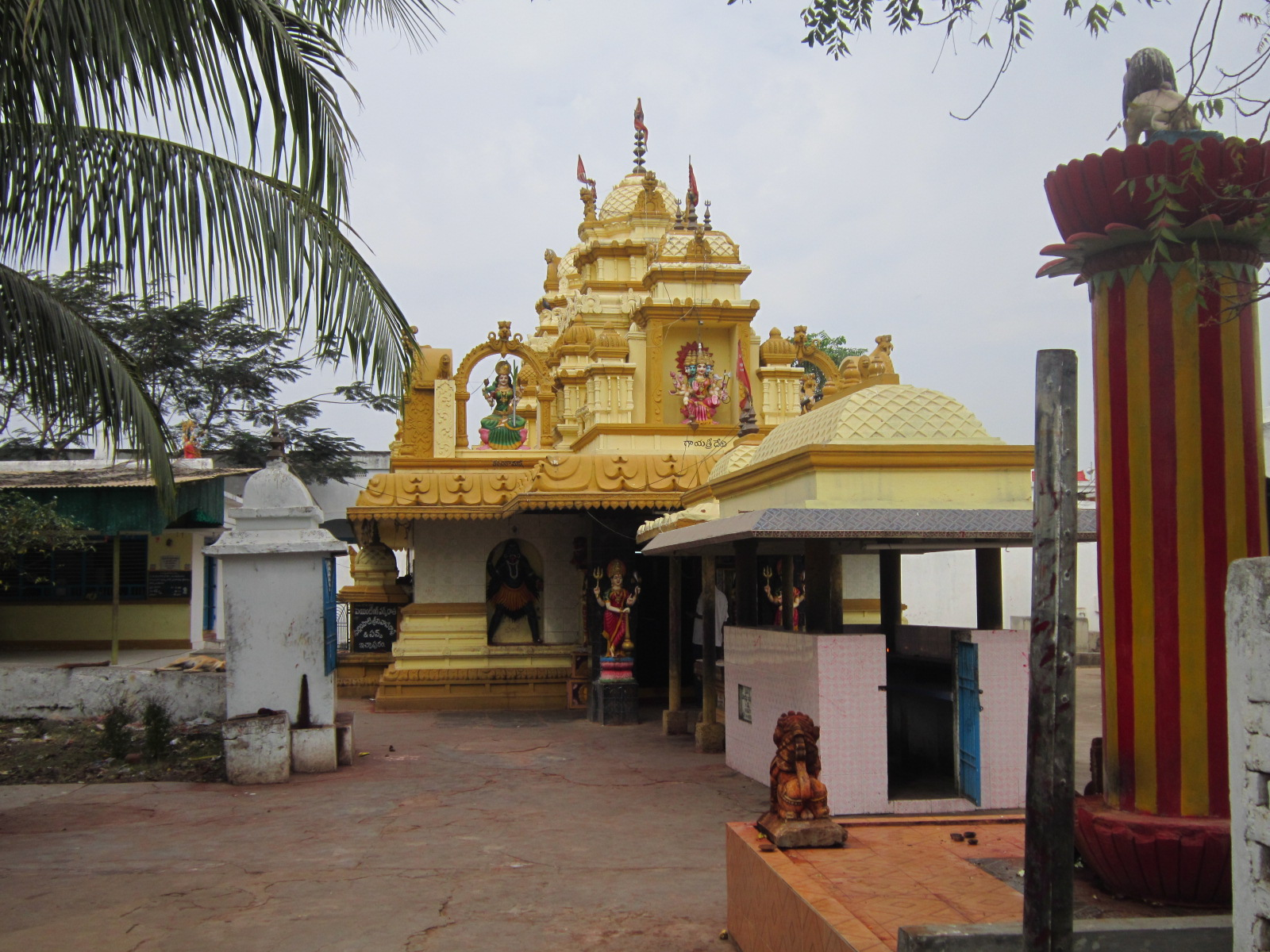 devi svechavati temple